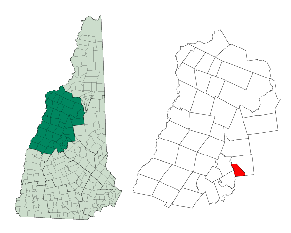 Map of a municipality in Belknap County, New Hampshire